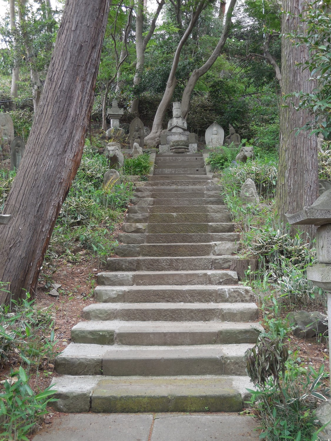 Goto Museum Garden Buddha statue